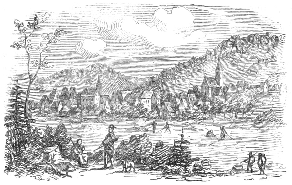 Image extracted from page 497 of above (page number relates to the digital version and can differ from the pagination within the book). Original held and digitised by the British Library. Note: The colours, contrast and appearance of these illustrations are unlikely to be true to life. They are derived from scanned images that have been enhanced for machine interpretation and have been altered from their originals.